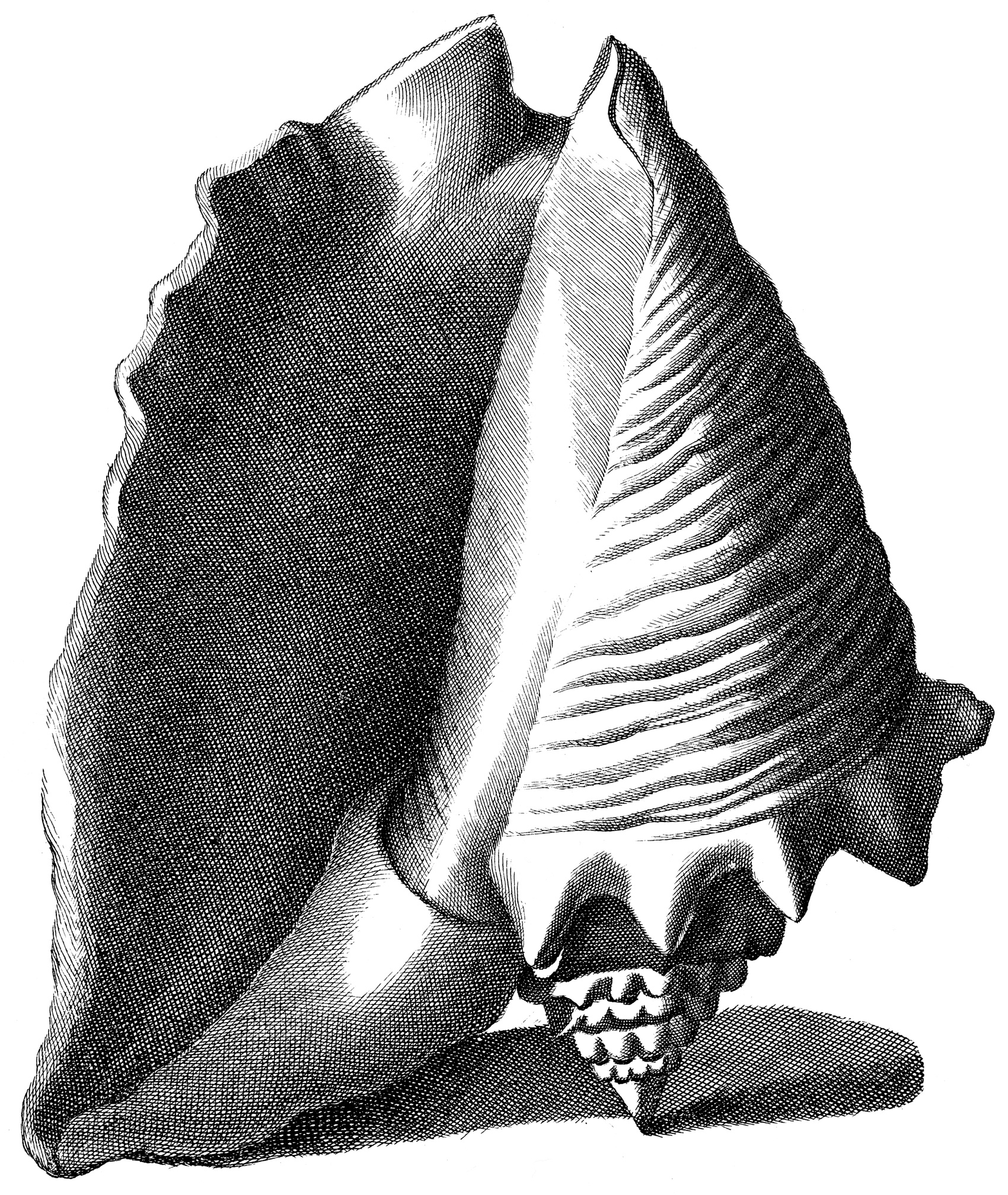 A drawing of a tropic snail Eustrombus gigas (Linnaeus, 1758)